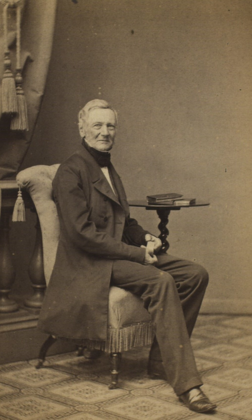 Anton Wilhelm Scheel (1799-1879), Dano-Norwegian jurist, Danish Minister of Justice, Supreme Court judge, and Army officer